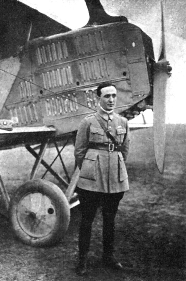 Cpt. Gheorghe Bănciulescu, Aviation School Tecuci, 1925. Last photo known before the accident in 1926